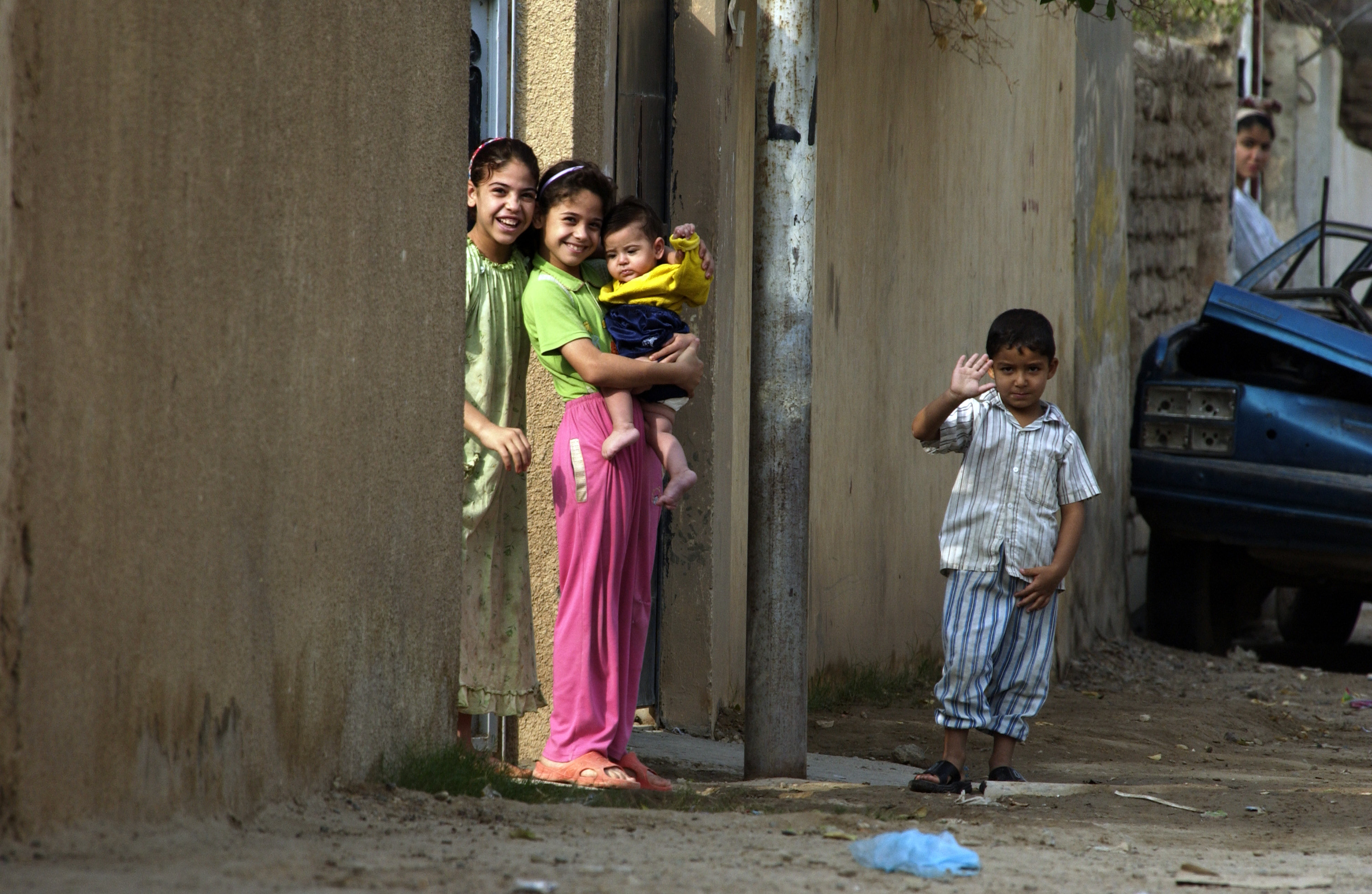 Local Samarran children wave to U.S. Army Soldiers patrolling the alley in Samarra, Iraq. The Soldiers are assigned to 1st Infantry Division, 1st Battalion, 26th Infantry Regiment, Apache Company, forward deployed from Schweinfurt, Germany